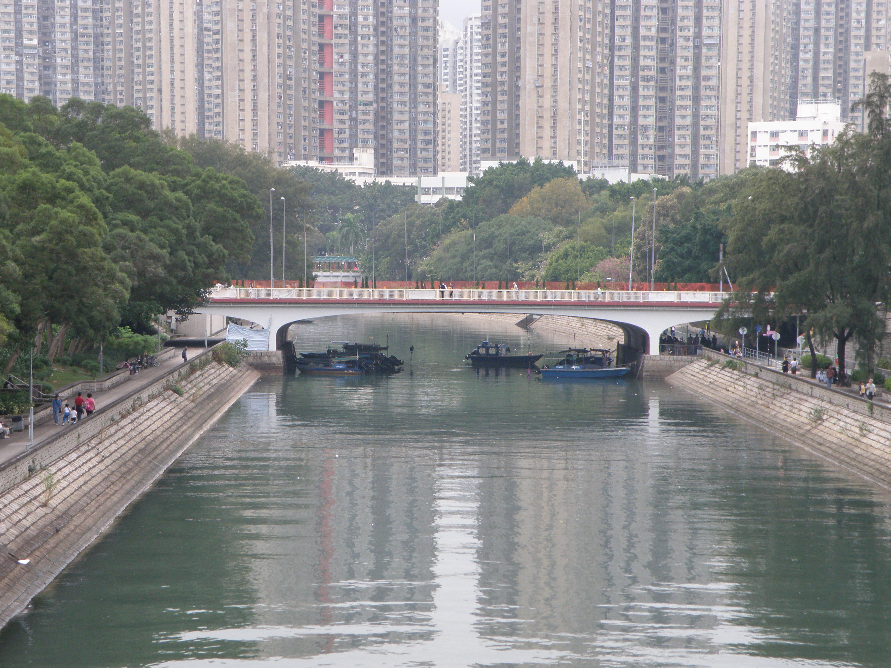 Po Heung Bridge in Tai Po, Hong Kong.粵語: 林村河望寶鄉橋